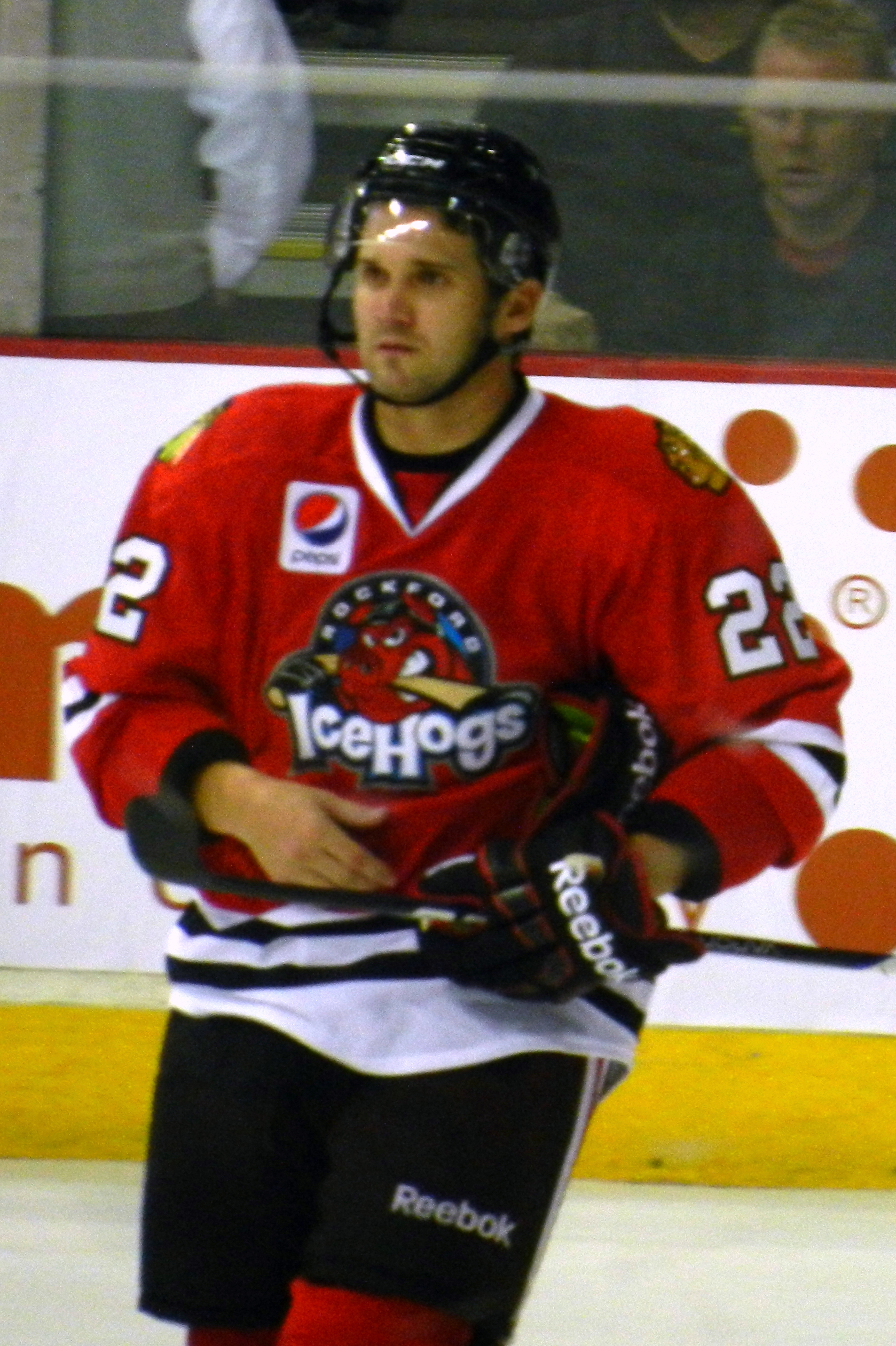 Brett Lebda playing for the Rockford IceHogs during the 2012-13 AHL season.